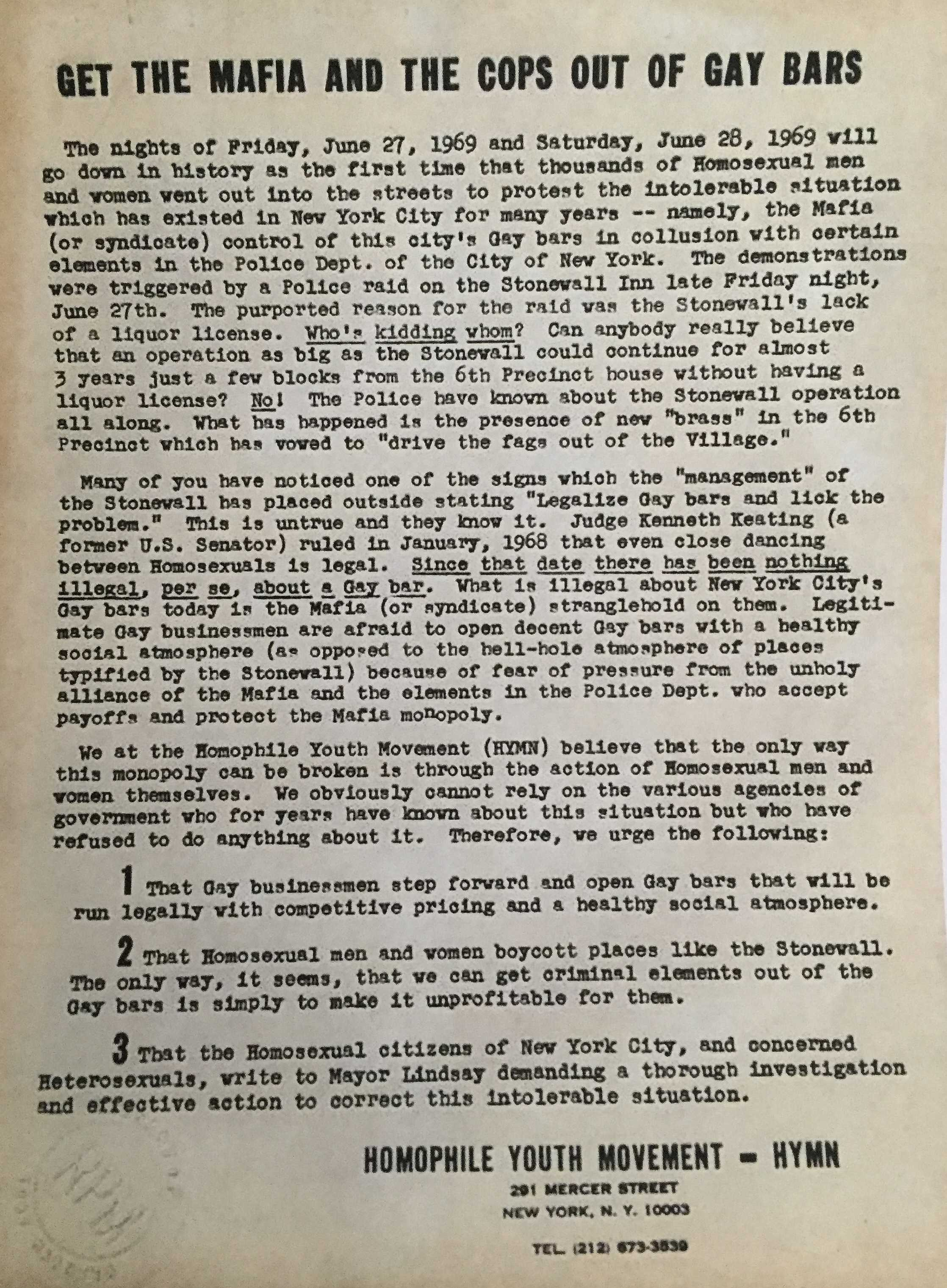 Leaflet produced distributed by Craig Rodwell and Fred Sargeant during the day after the first night of rioting at the Stonewall Inn